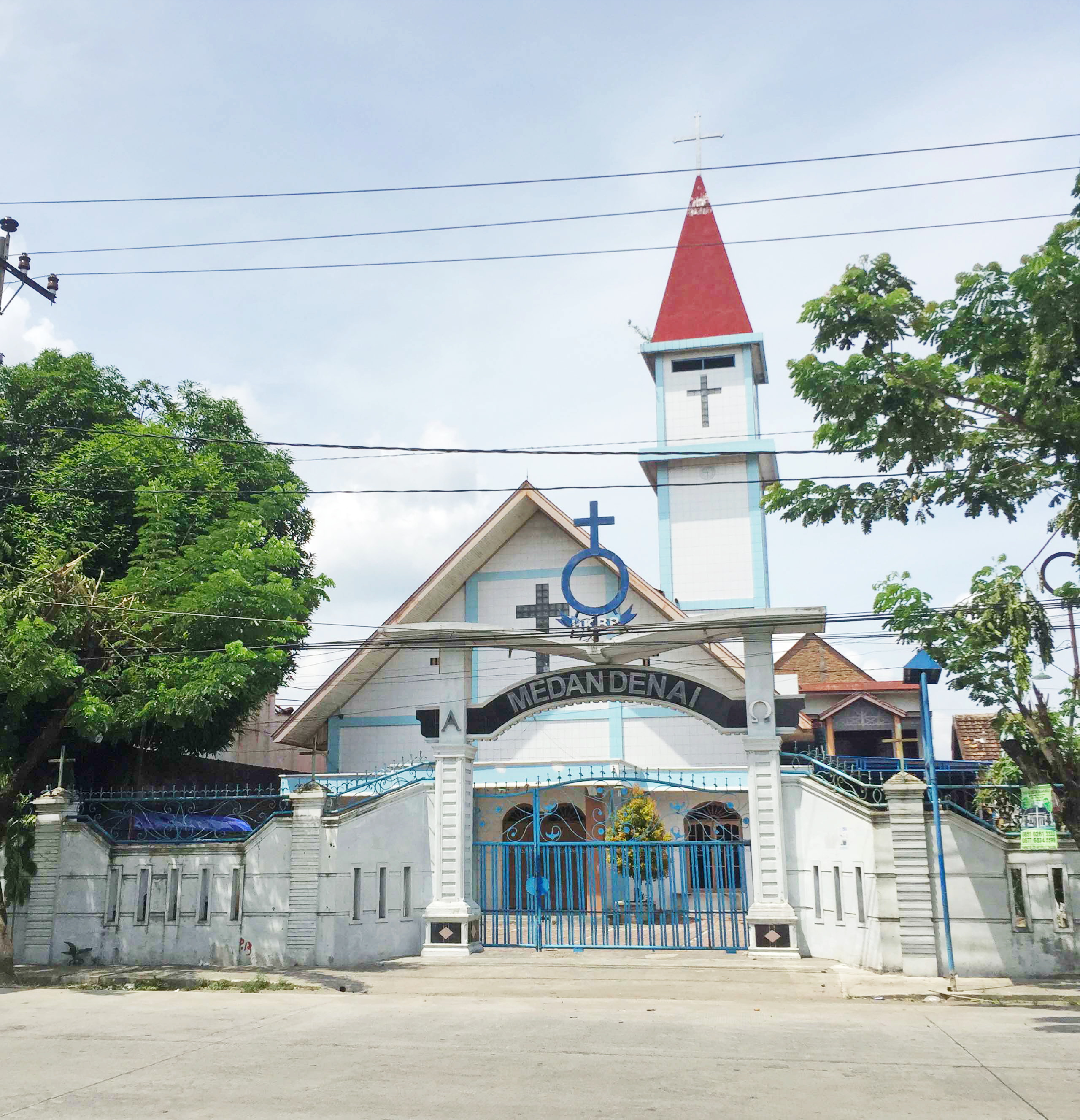 HKBP Medan Denai, Res. Sukarame Church in Tegal Sari Mandala I, Medan Denai, Medan